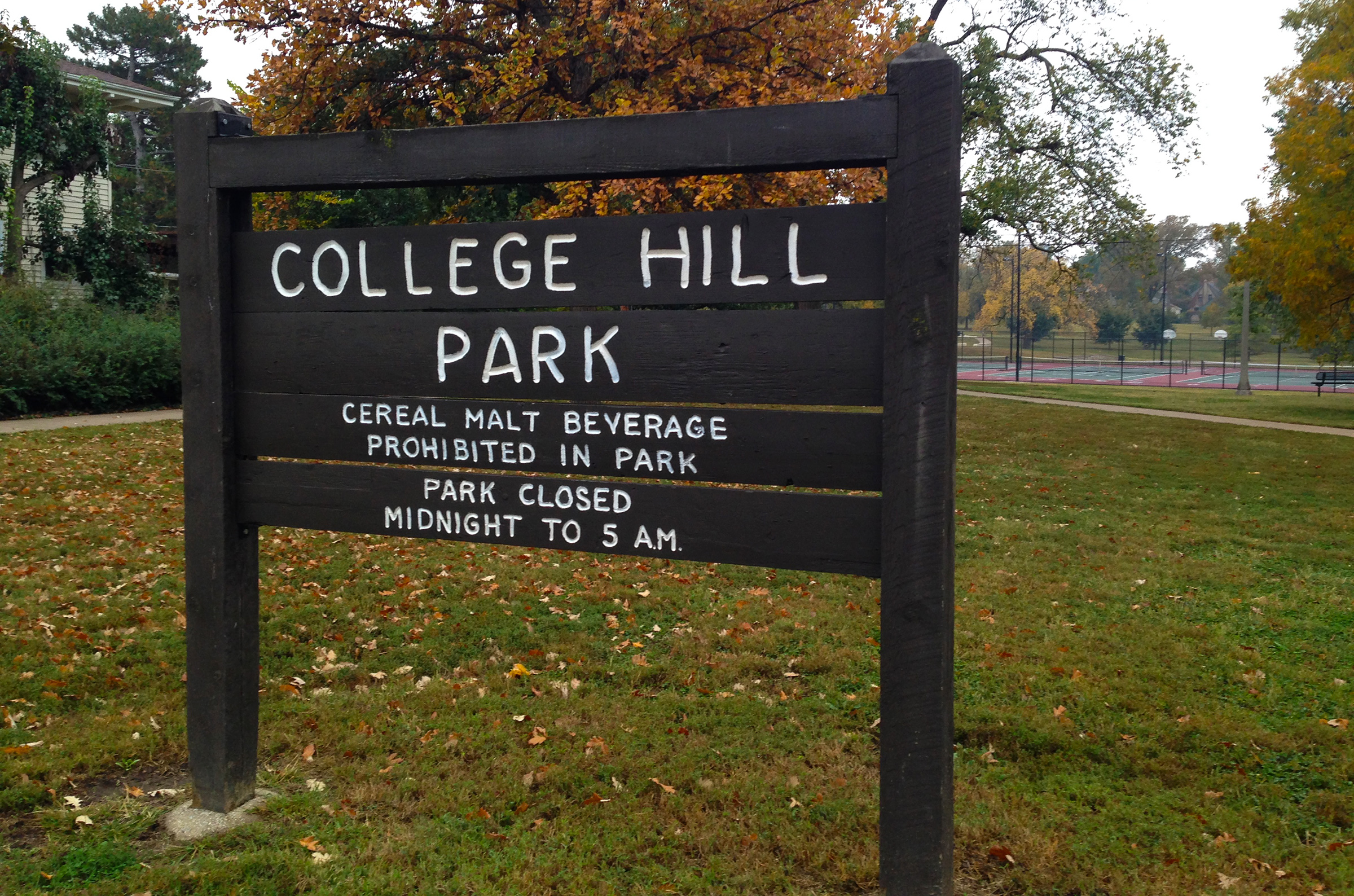 College Hill Park sign, Wichita, Kansas